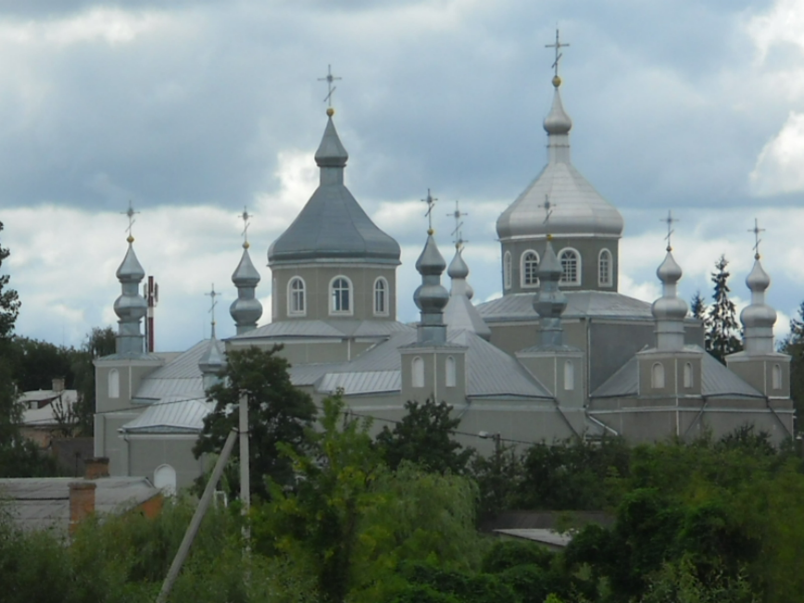 Annunciation Orthodox Cathedral in Kovel